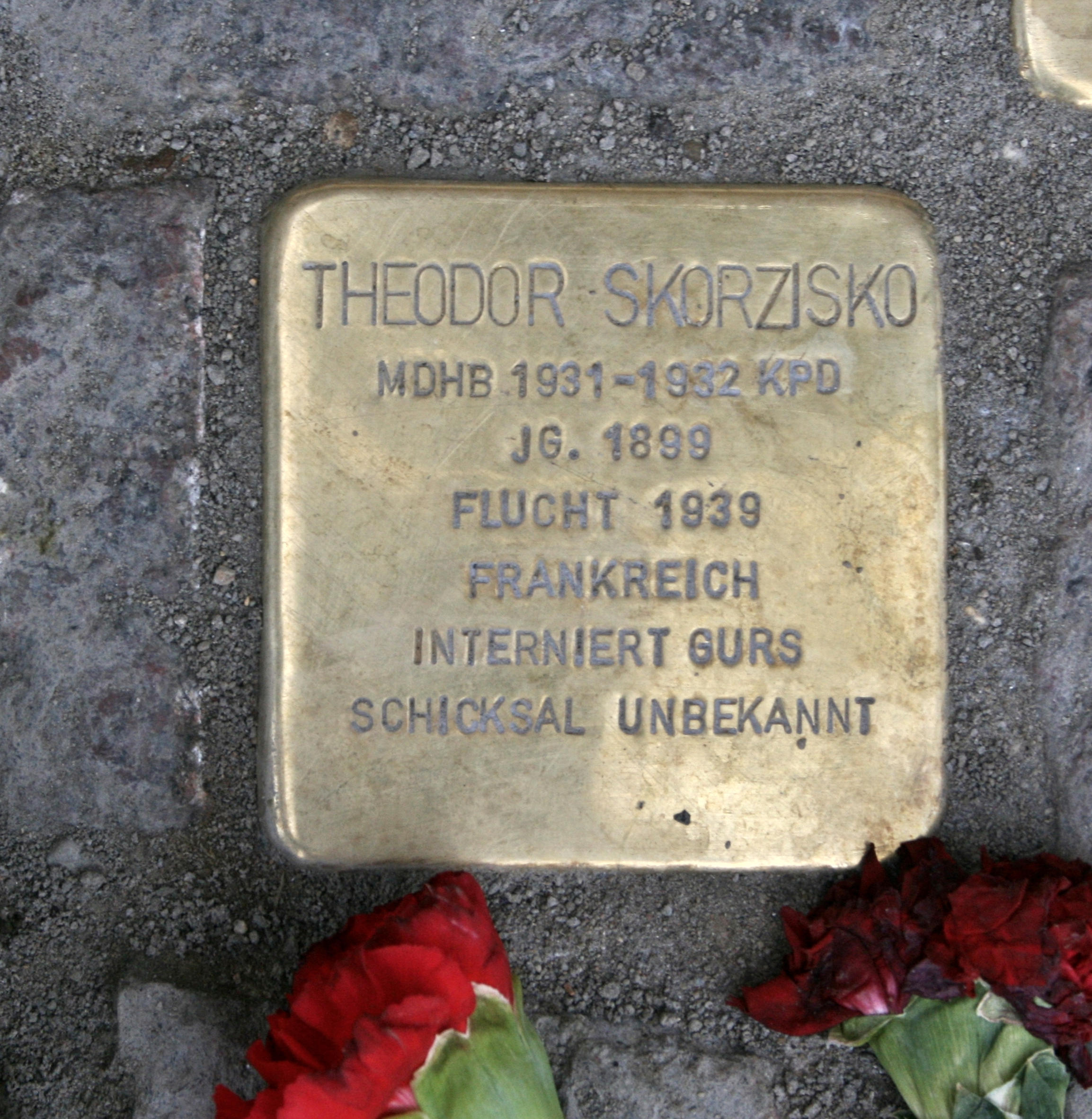 Stolperstein for Theodor Skorzisko, member of the Bürgerschaft Hamburg, a victim of the Nazis. Position: At the left side of the main entrance of the city hall in Hamburg, laid on June 8, 2012